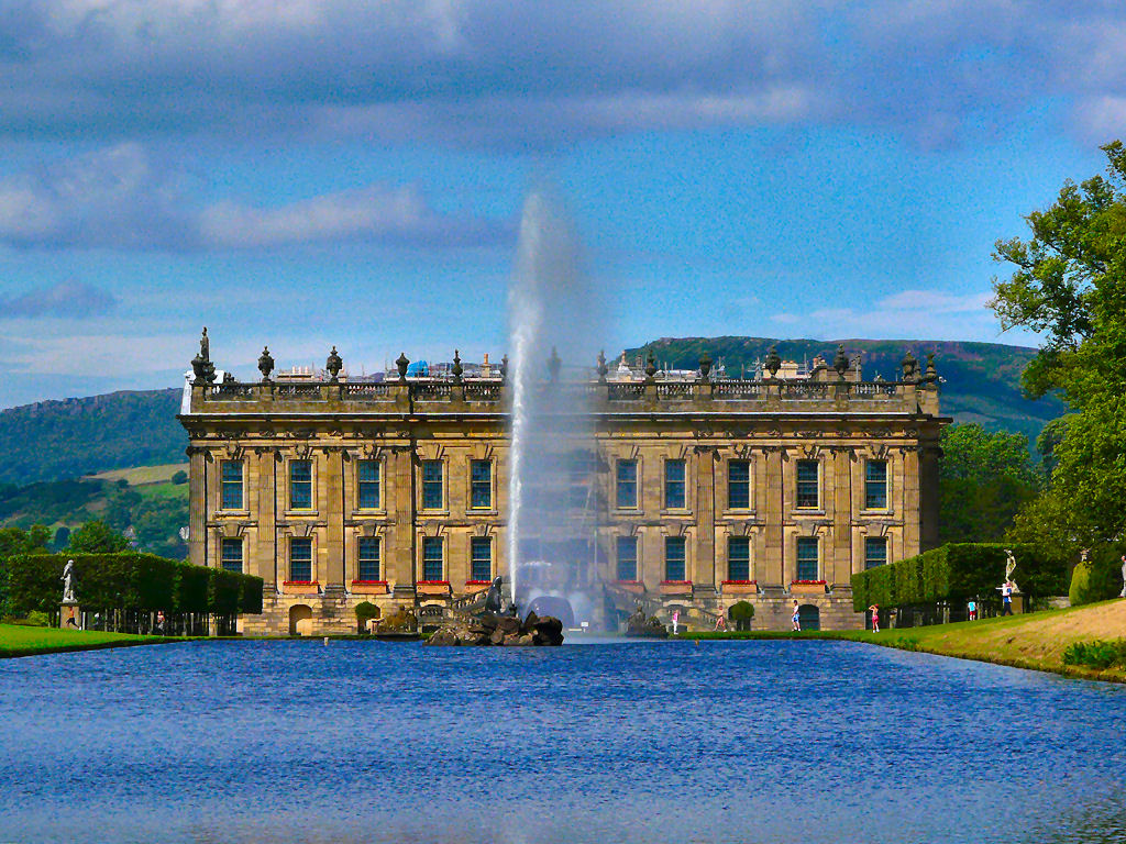 Chatsworth South Front